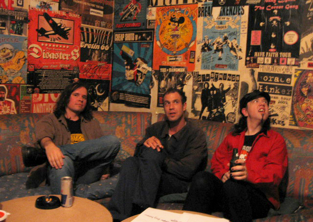 Mother Superior Band. Backstage Mondo Bizarro, Rennes.